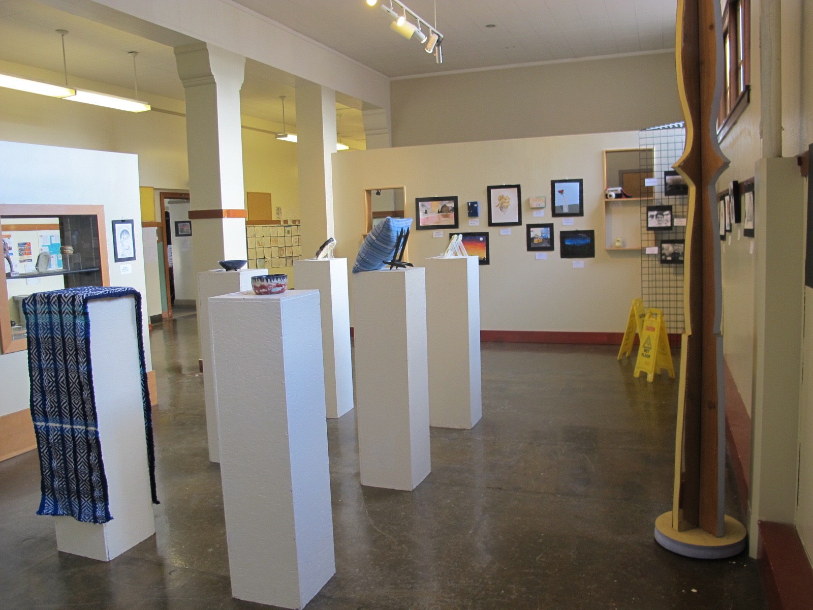 this is the art gallery of da vinci arts middle school, an arts magnet school in the Portland Public School district of Portland, Oregon.